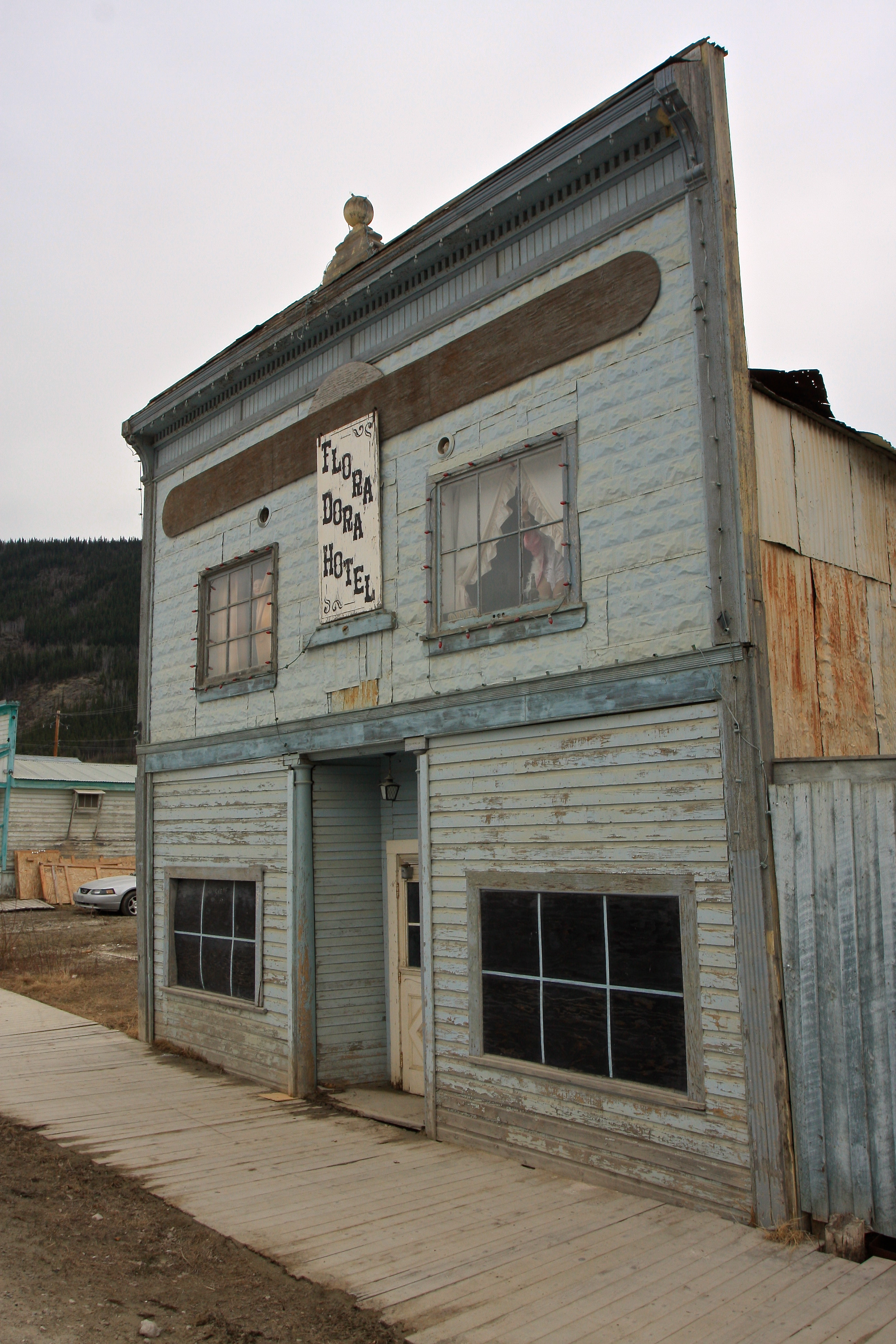 Flora Dora Hotel - Dawson City, Yukon Territory